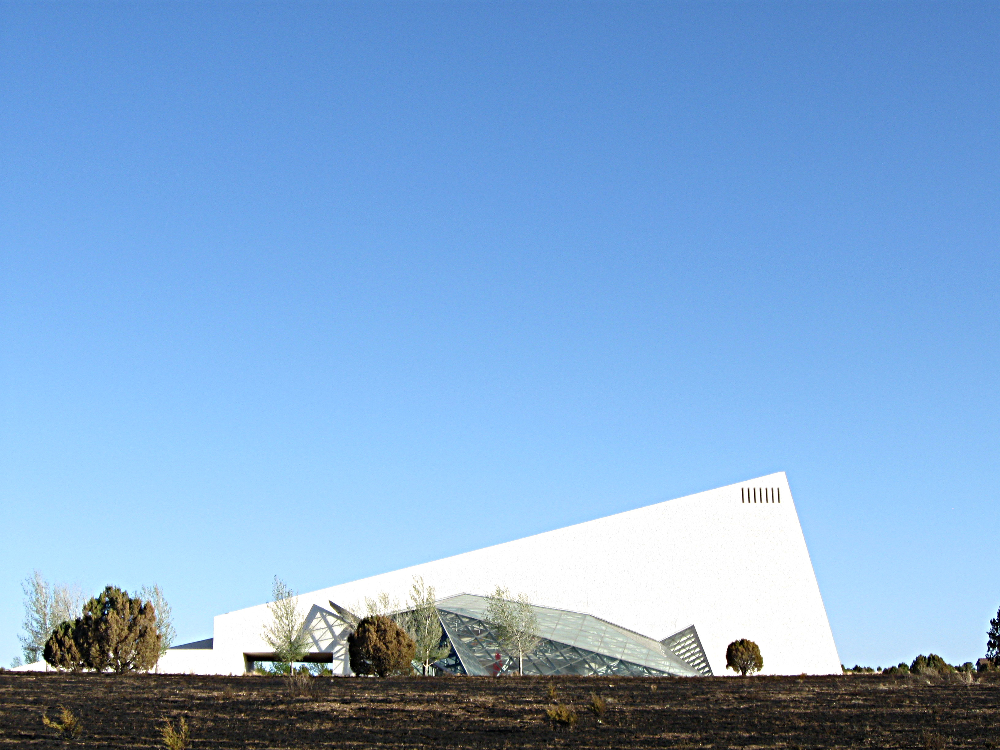 Spencer Theater for the Performing Arts, located at 108 Spencer Drive (off New Mexico State Road 220 near Alto, New Mexico). Photographed from State Road 220 in the late afternoon sun.